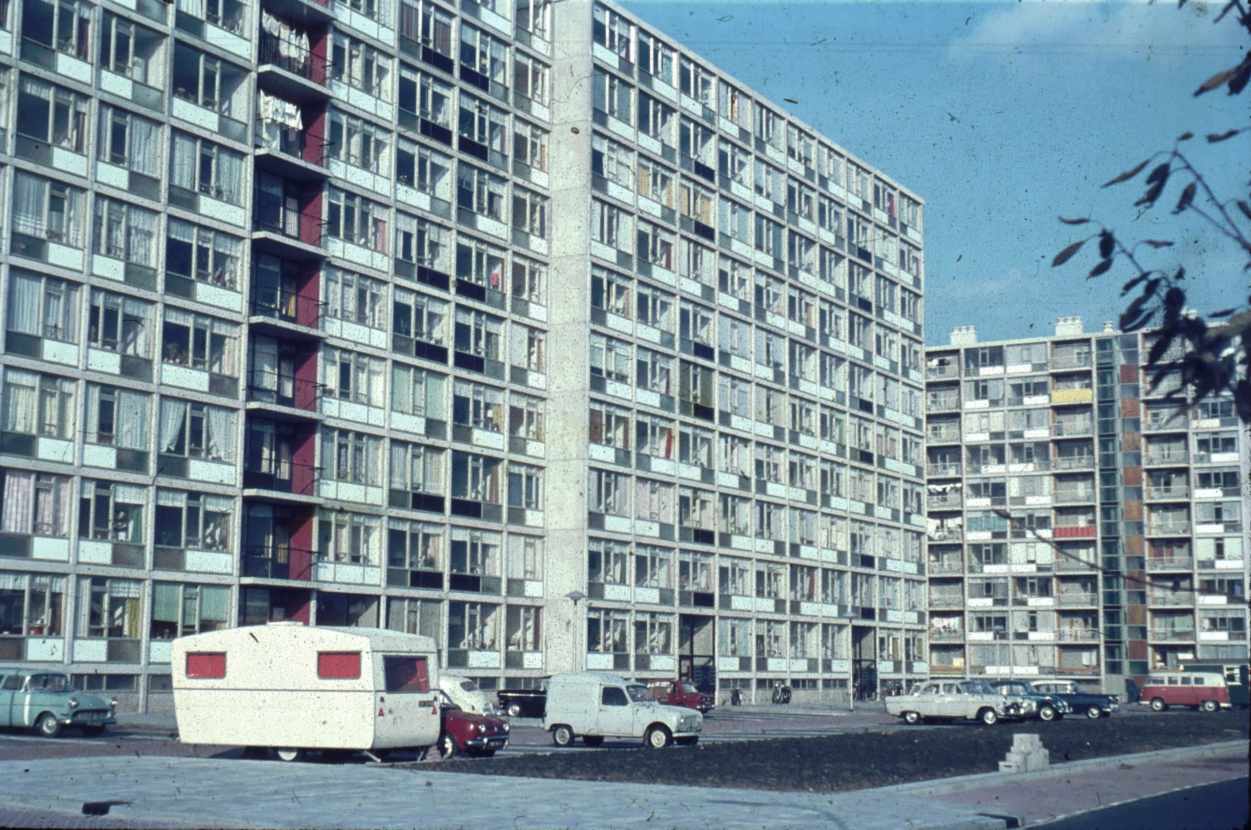 Apollodreef ca 1968